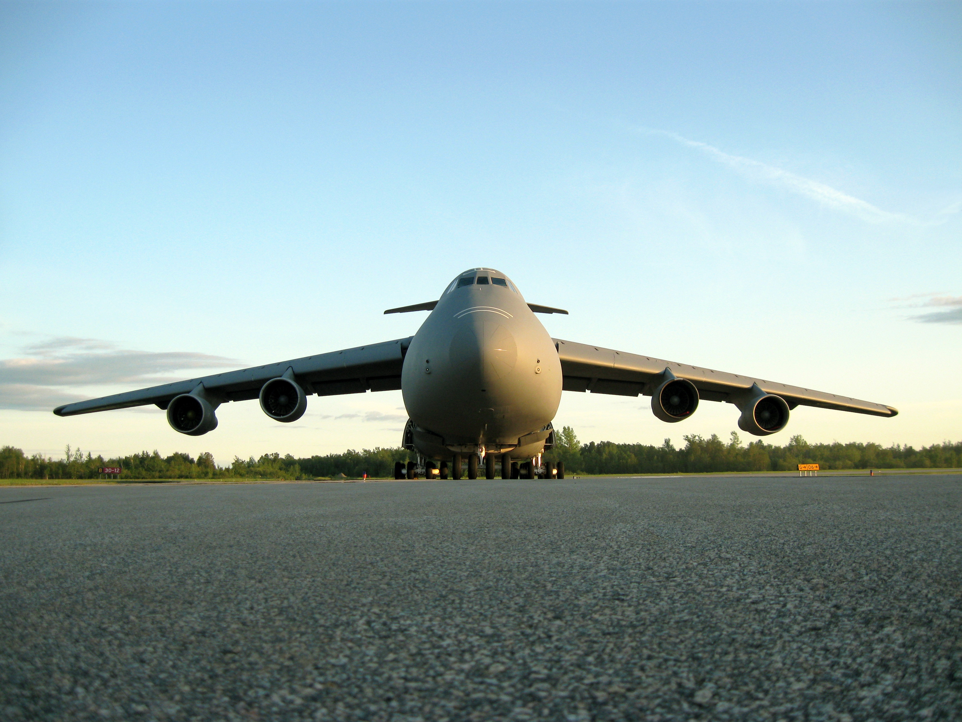 A Galaxy pictured at sunset, just prior to the final Québec International Airshow in 2010.